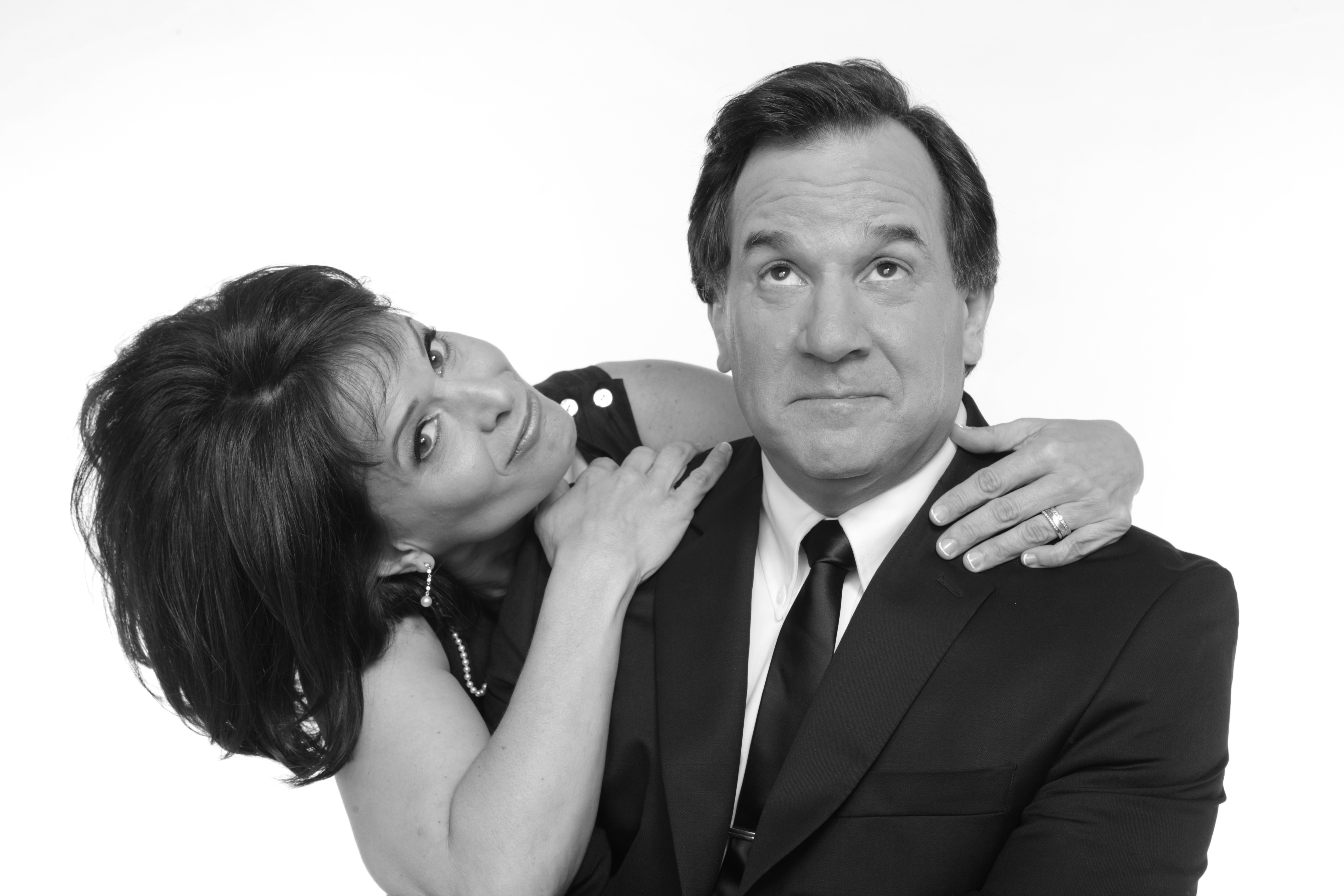 "The Vic & Paul Show" cast photo: Victoria Zielinski and Paul Barrosse (2010)